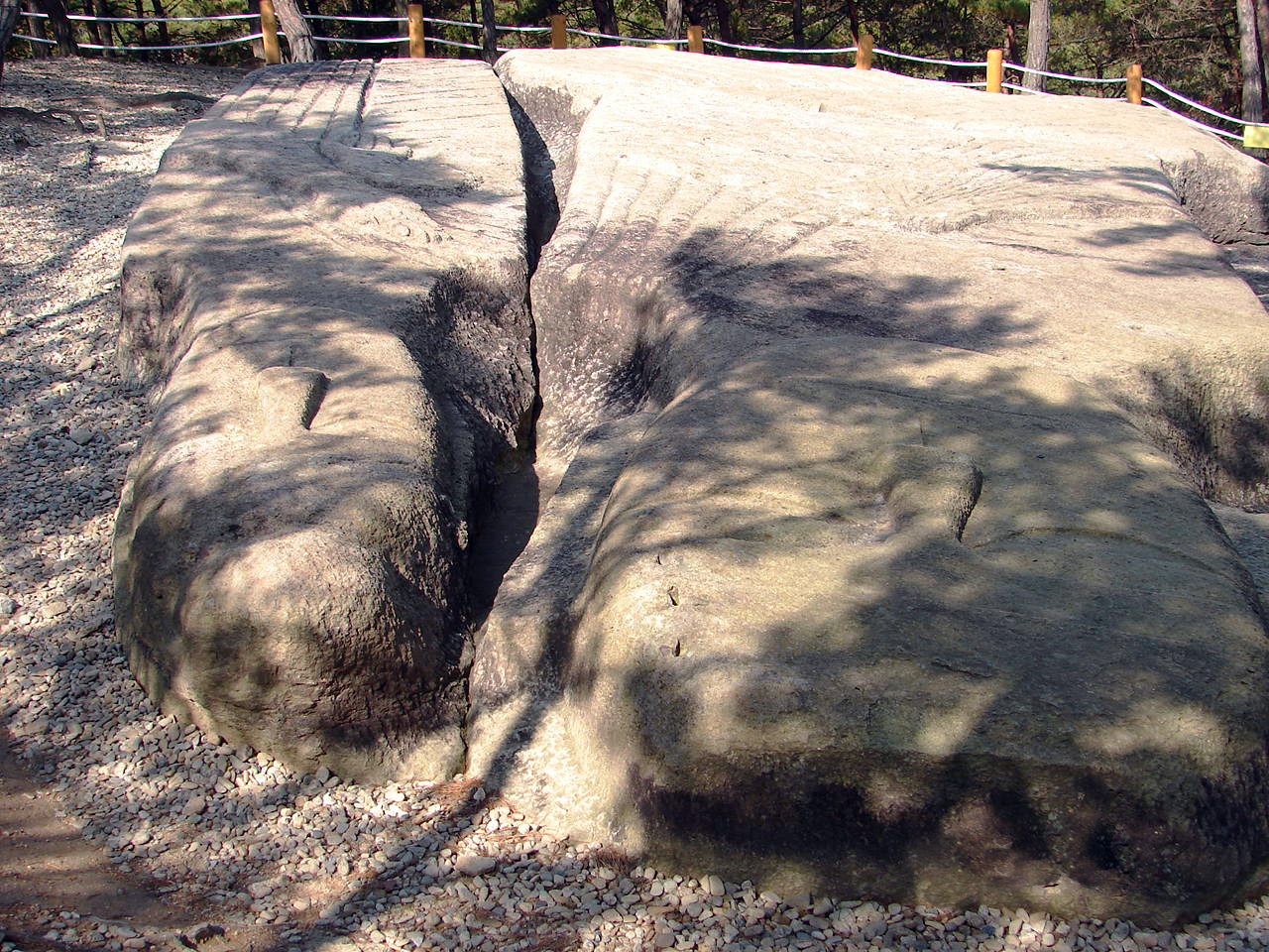 Stone Statues of the Lying Buddha at Unjusa near Gwangju (Hwasun/Yongyang